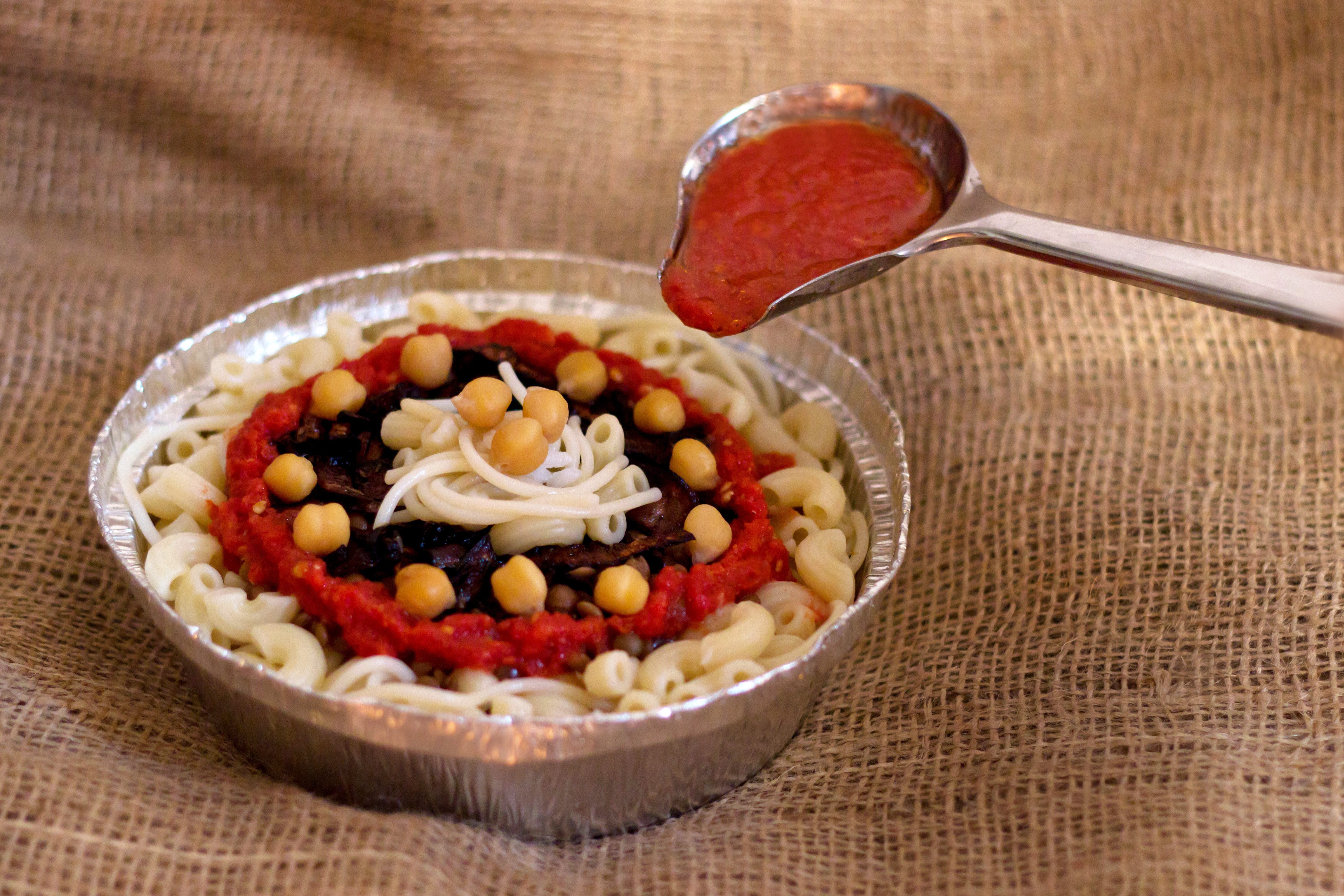 The unique Egyptian dish "Kushari" made of rice, pasta, lentils and fried onions, served with garlic flavored tomato sauce and decorated with hummus. It's a cheap popular meal ranging between 3-5 LE as it doesn't contain meat and its restaurants are widely spread along the country. هذه الصورة تمثل اكلة من مصر